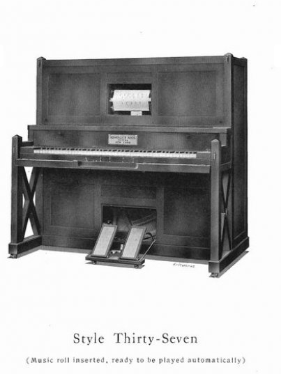 Piano "Style Thirty-Seven" (Music roll inserted, ready to be played automatically). Krakauer Bros. piano manufacturer in New York City.